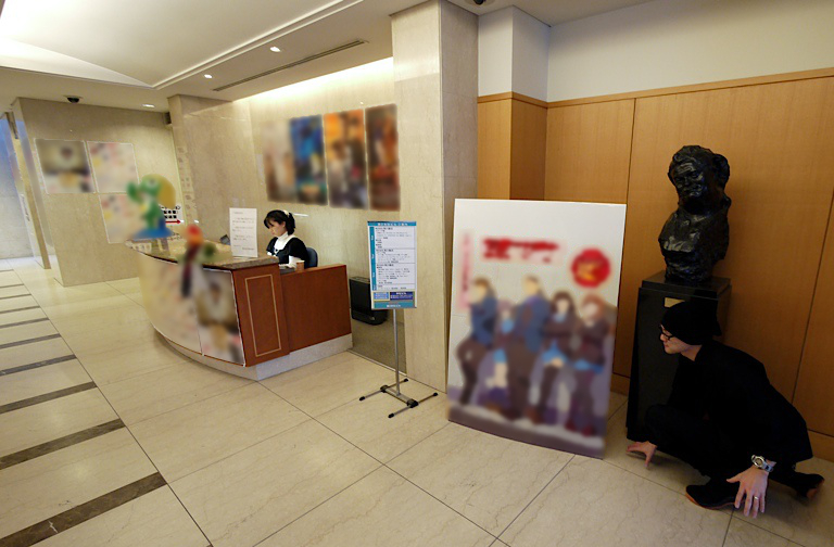 Established in 1945, Kadokawa went from inventing the Bunko [文庫] book format, to producing movies, video games, anime and own titles that we all know and love such as Haruhi and Lucky Star. They own many media properties including Ascii Media Works who use Mirai Gaia to run their publishing solutions for Tokyo Kawaii Magazine.